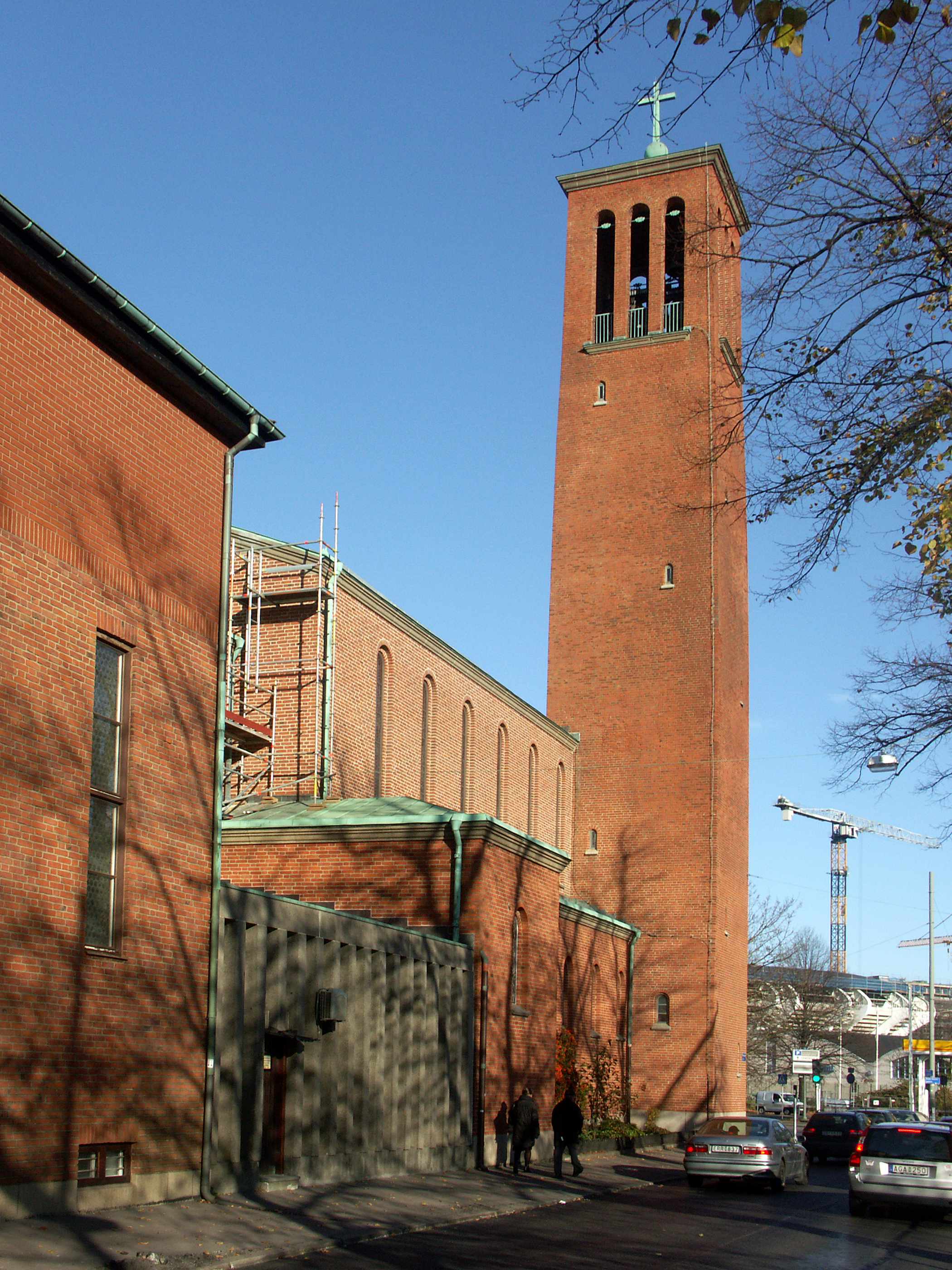 The church of Roman-Catholic congregation "Kristus Konungens församling" in Gothenburg, Sweden